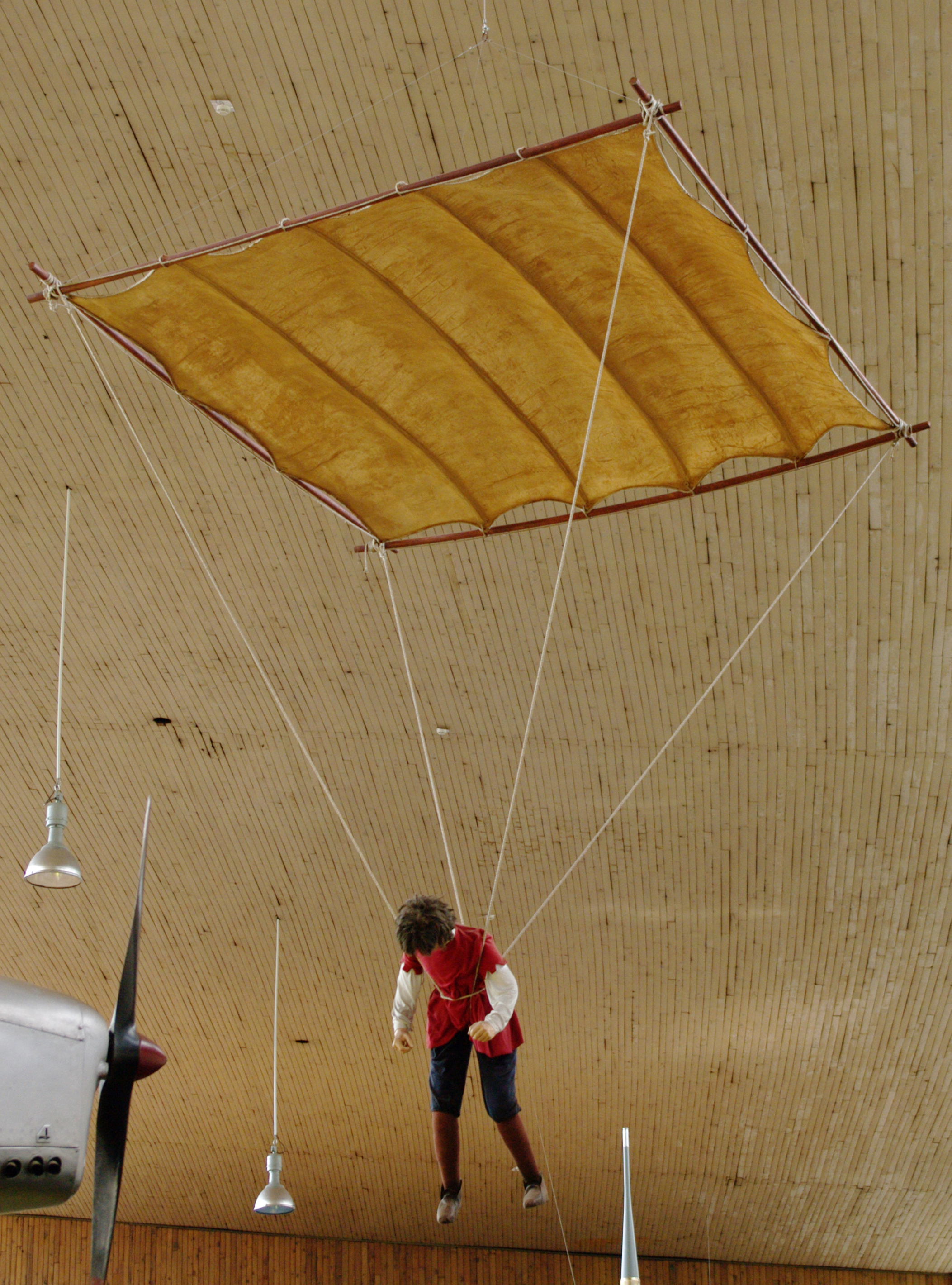 Faust Vrančić (Technical Museum Zagreb)